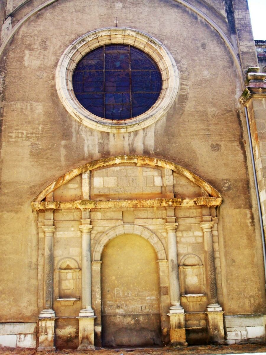 Portada renacentista de la nave del Evangelio, Iglesia de San Juan y San Pedro de Renueva, León, España. Procede del arruinado monasterio de San Pedro de Eslonza